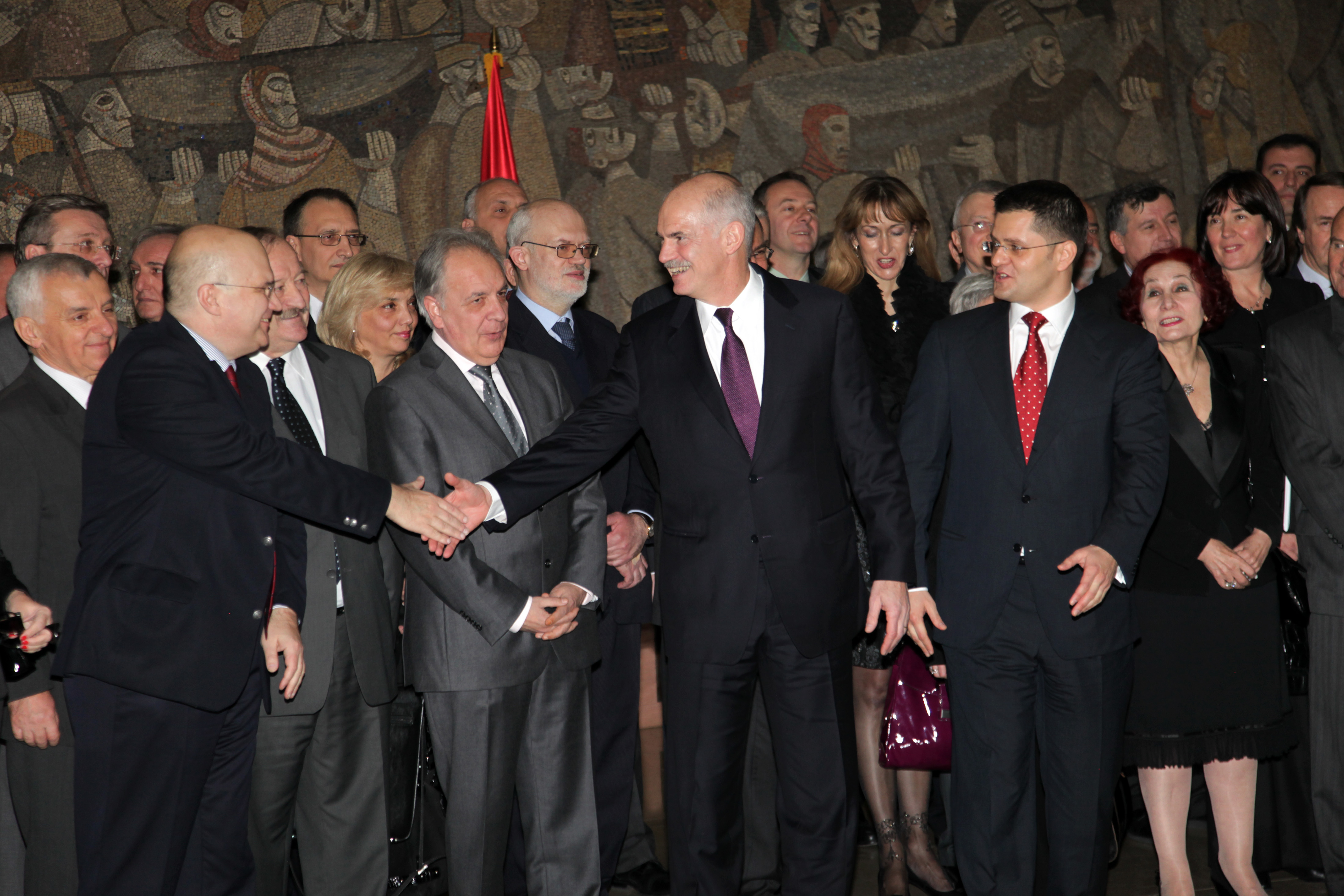 Serbian Ambassadorial conference 2010 with George Papandreou as a special guest